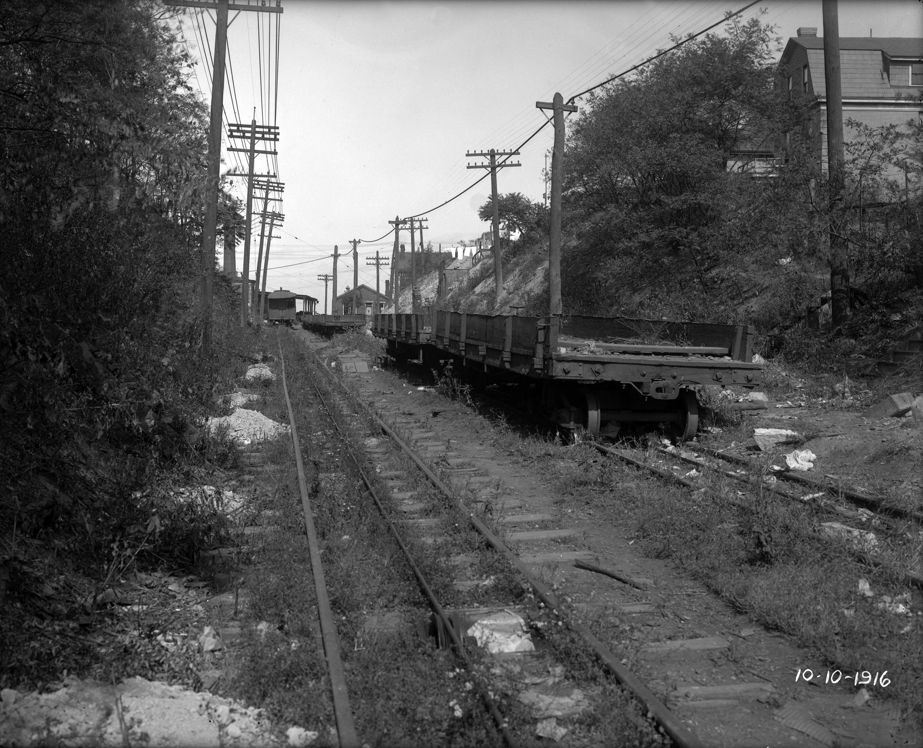 A view of Laclede Street, showing abandoned railroad cars and tracks. Date October 10, 1916 Subjects Railroad tracks--Pennsylvania--Pittsburgh. Streets--Pennsylvania--Pittsburgh. Dwellings--Pennsylvania--Pittsburgh. Railroad cars--Pennsylvania--Pittsburgh. Laclede Street (Pittsburgh, Pa.). Mount Washington (Pittsburgh, Pa.).